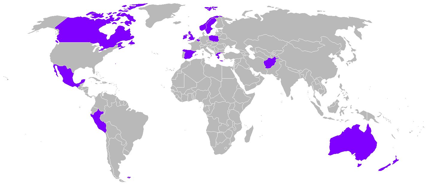 World map of Bristol Fighter operators